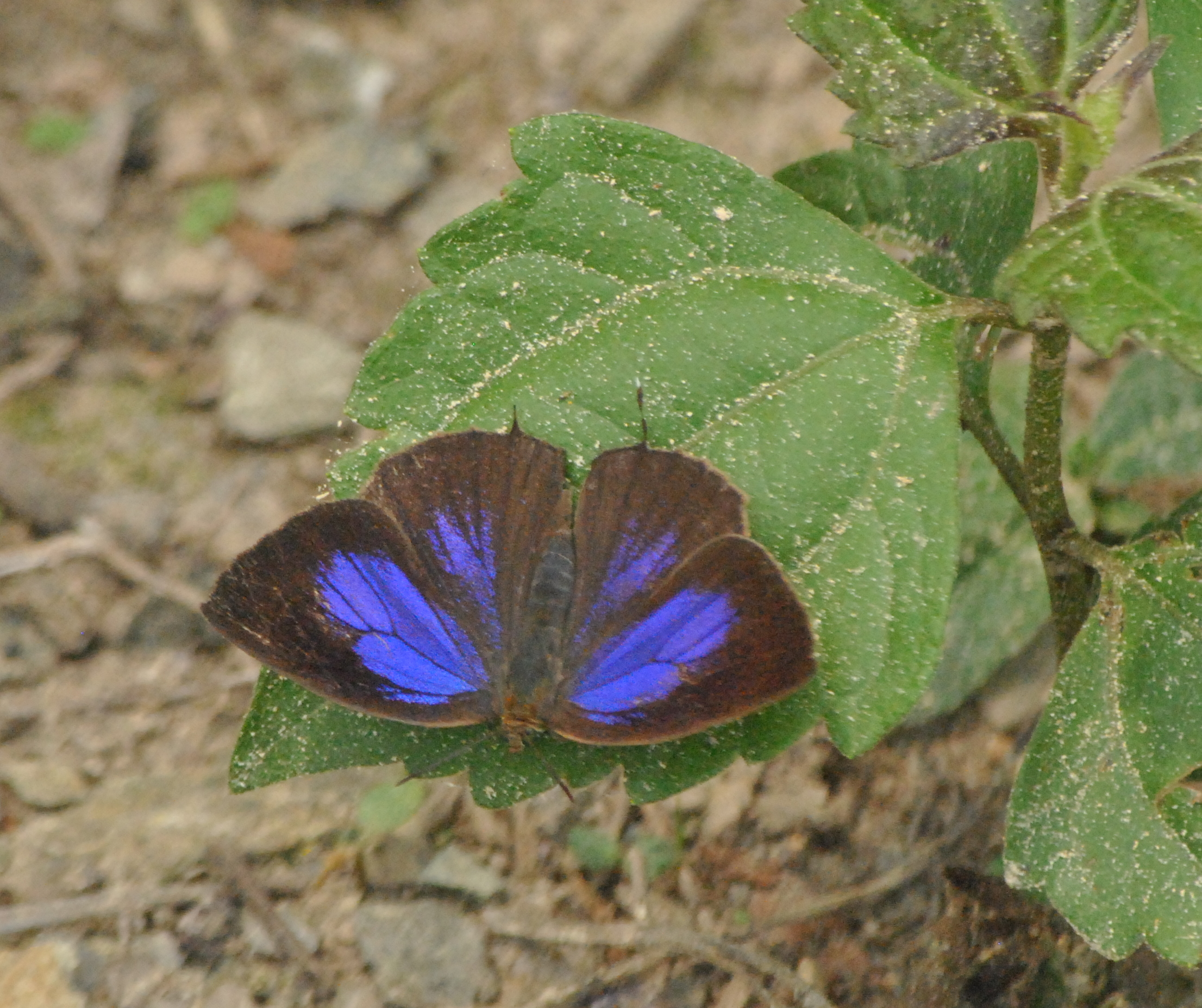 This image was taken in the project Wiki Loves Butterfly. Chocolate Royal Remelana jangala . Subspecies: Remelana jangala ravata Moore, 1865 – Northern Chocolate Royal. This specimen has the wingspan of 32-42mm.